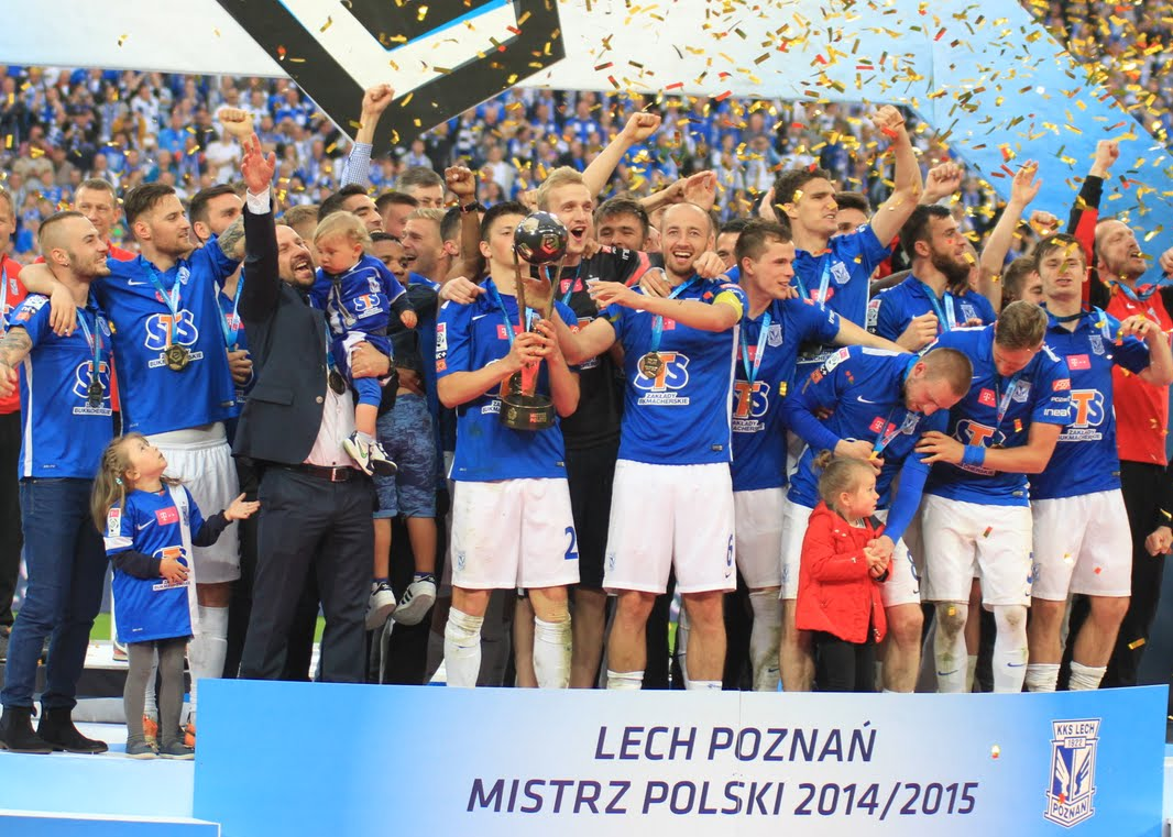 Football team Lech Poznań wins the League, Inea Stadium, Poznań